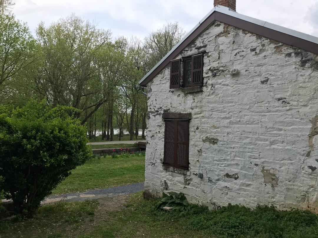 Swains Lock house (#21) on C&O Canal with Potomac River in background in Travilah/Potomac Maryland